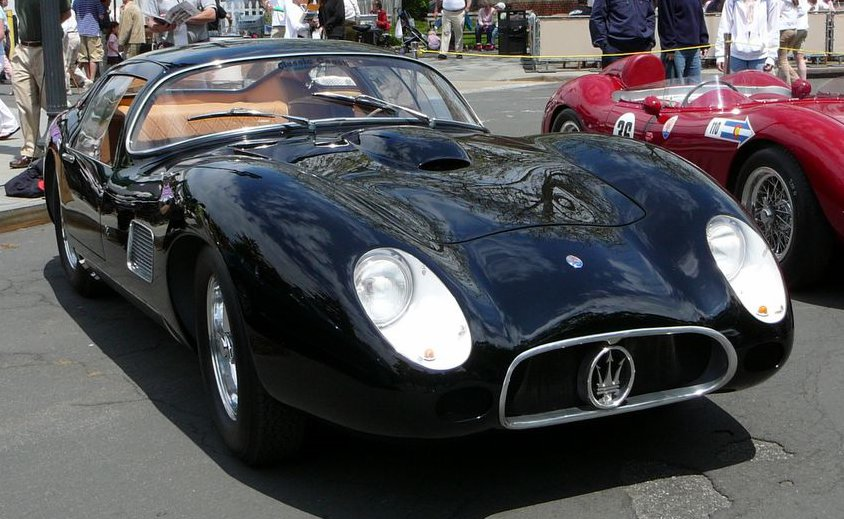 1957 450S Costin/Zagato coupe at Scarsdale (2006).